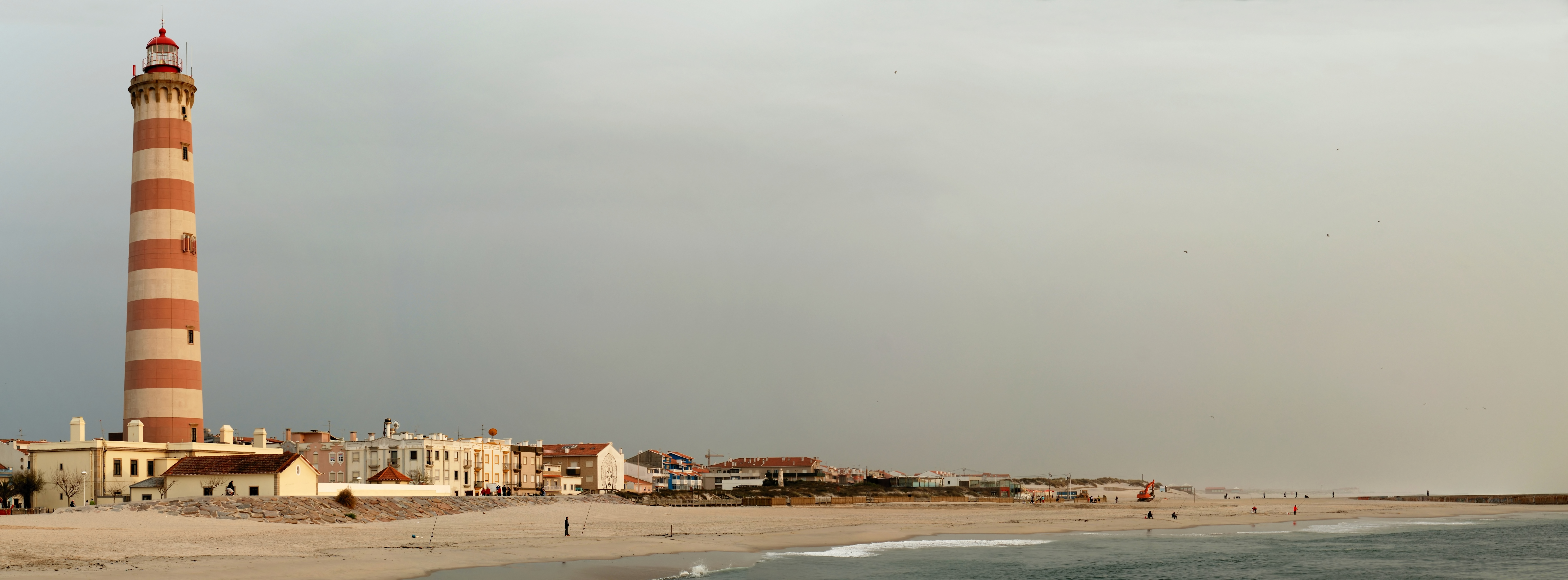 Aveiro lighthouse, west coast of Portugal